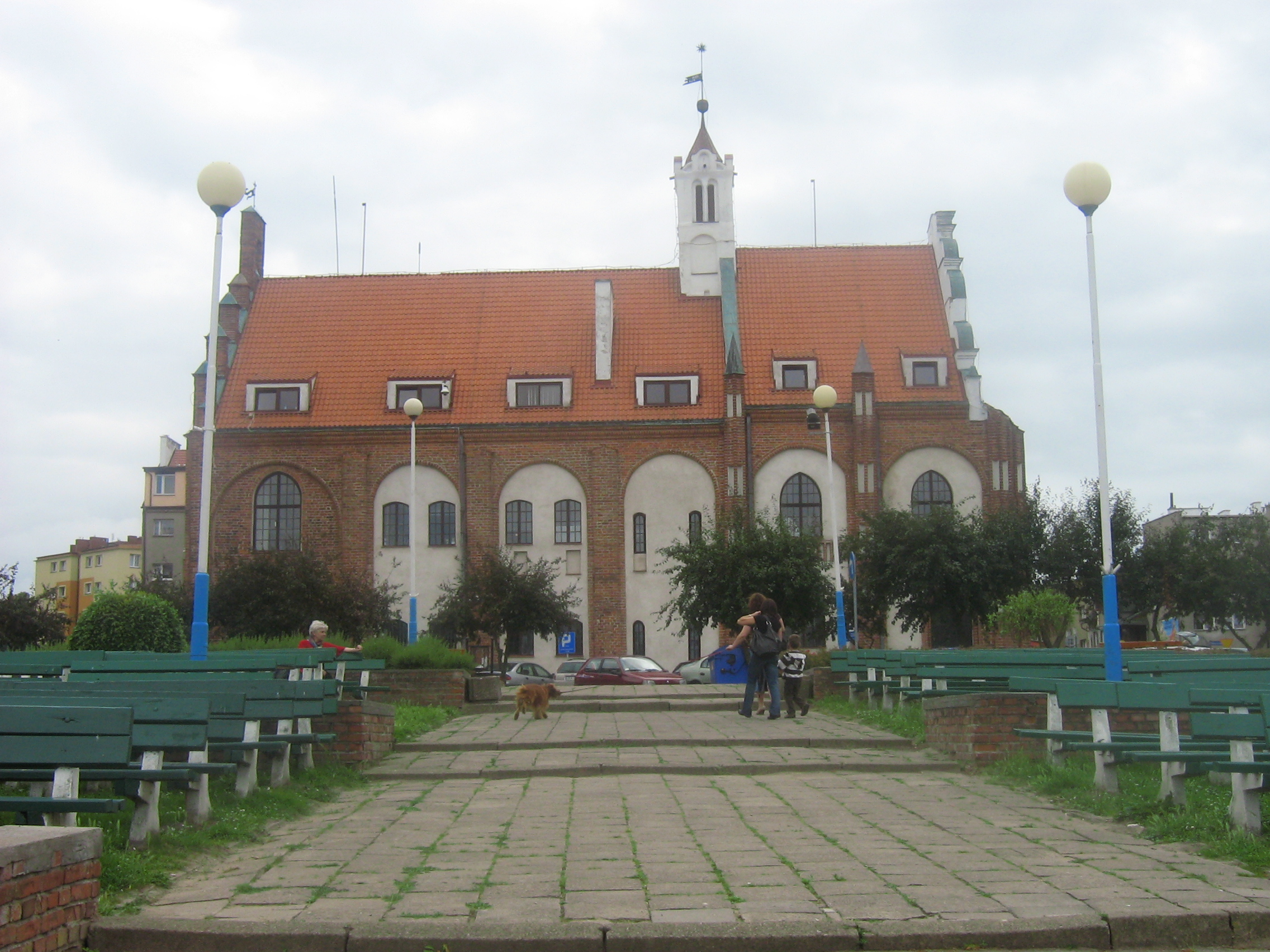 Town halls in Kamień Pomorski